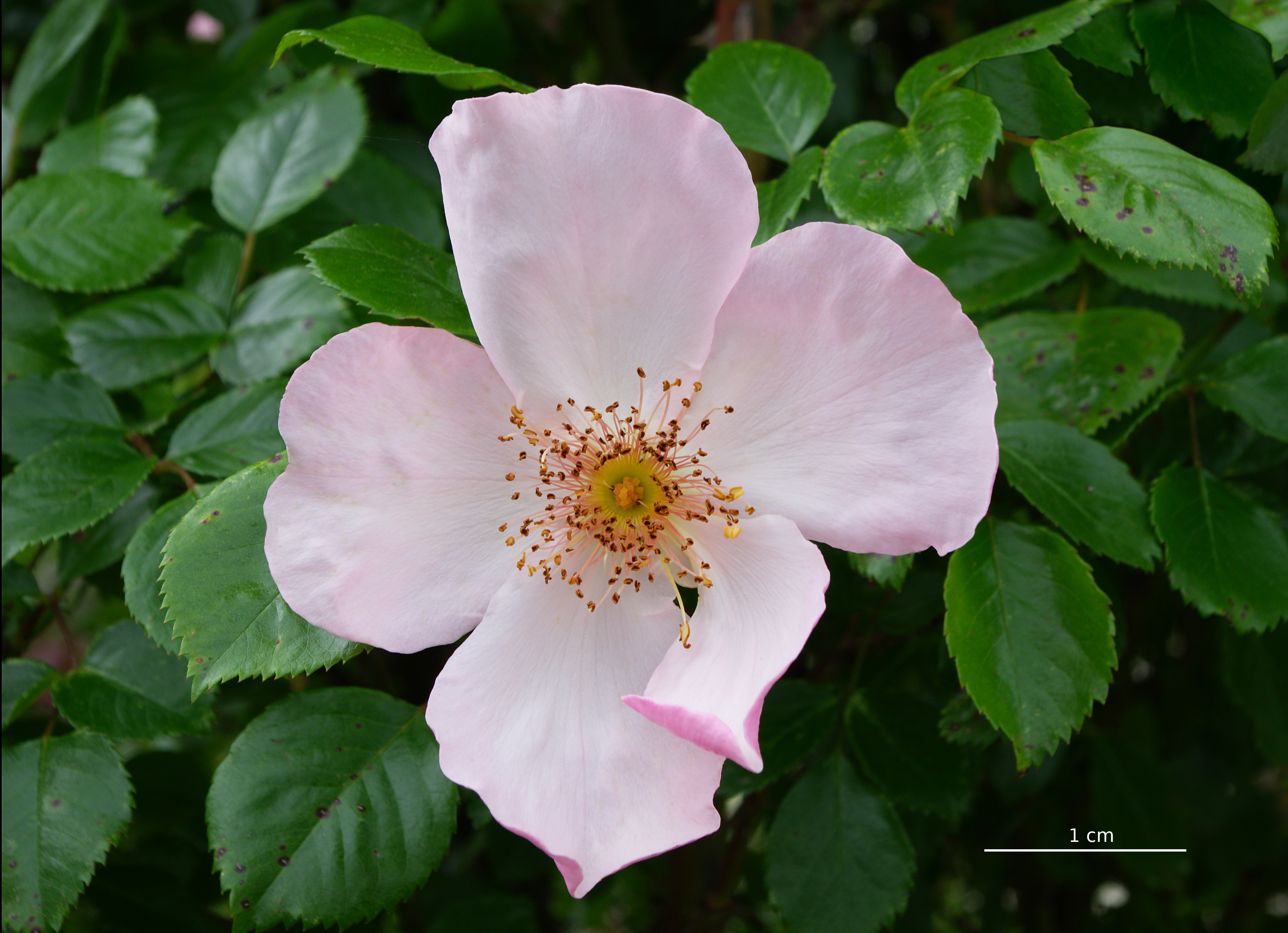 Rose (Rosa tomentosa), in a garden, France.